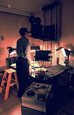 A special effects camera with aerial image projection. Photo 1998 by Jan-Eric Nyström, User:Janke. Released to Public Domain.